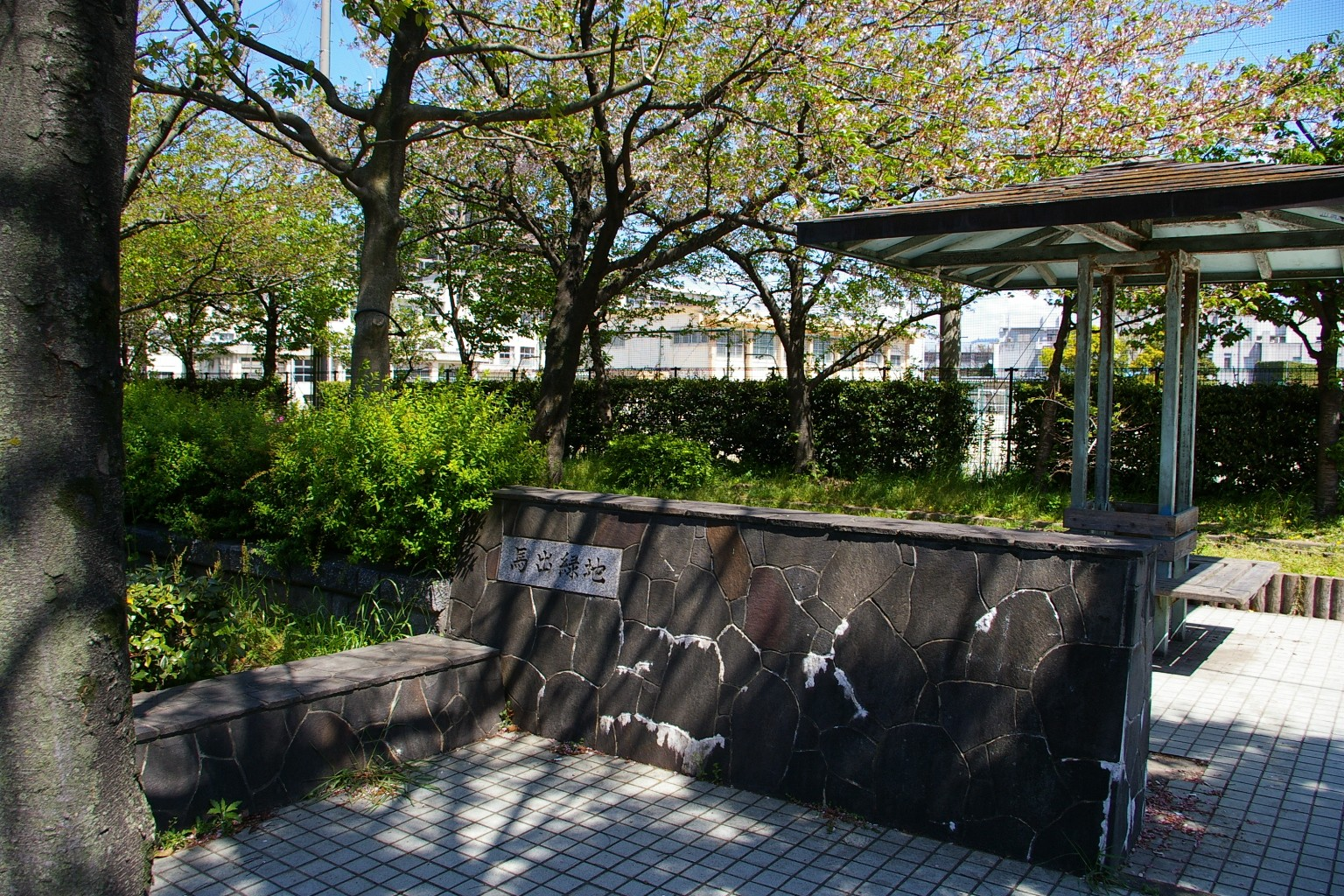 It was taken in Fukuoka city.